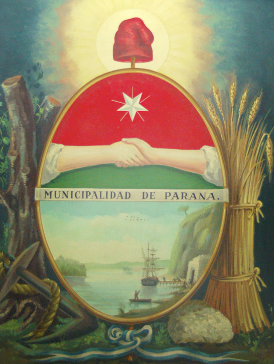 Coat of arms of the city of Paraná, in Entre Ríos Province, Argentina.